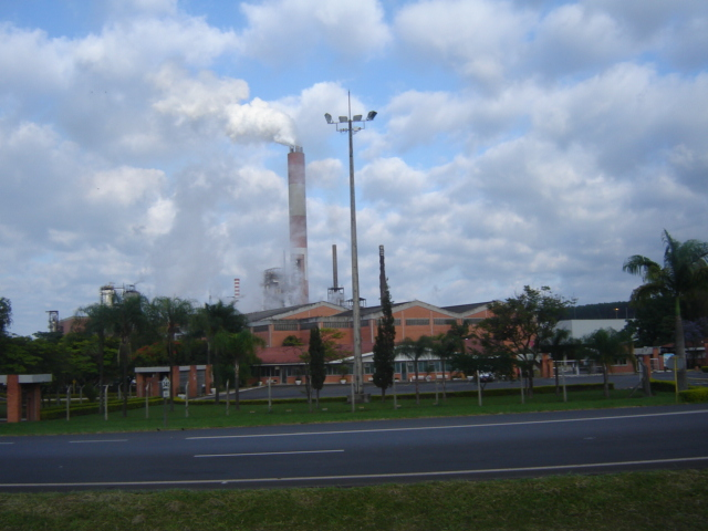 Picture of Mogi-Guaçú/SP/Brazil International Paper Plant